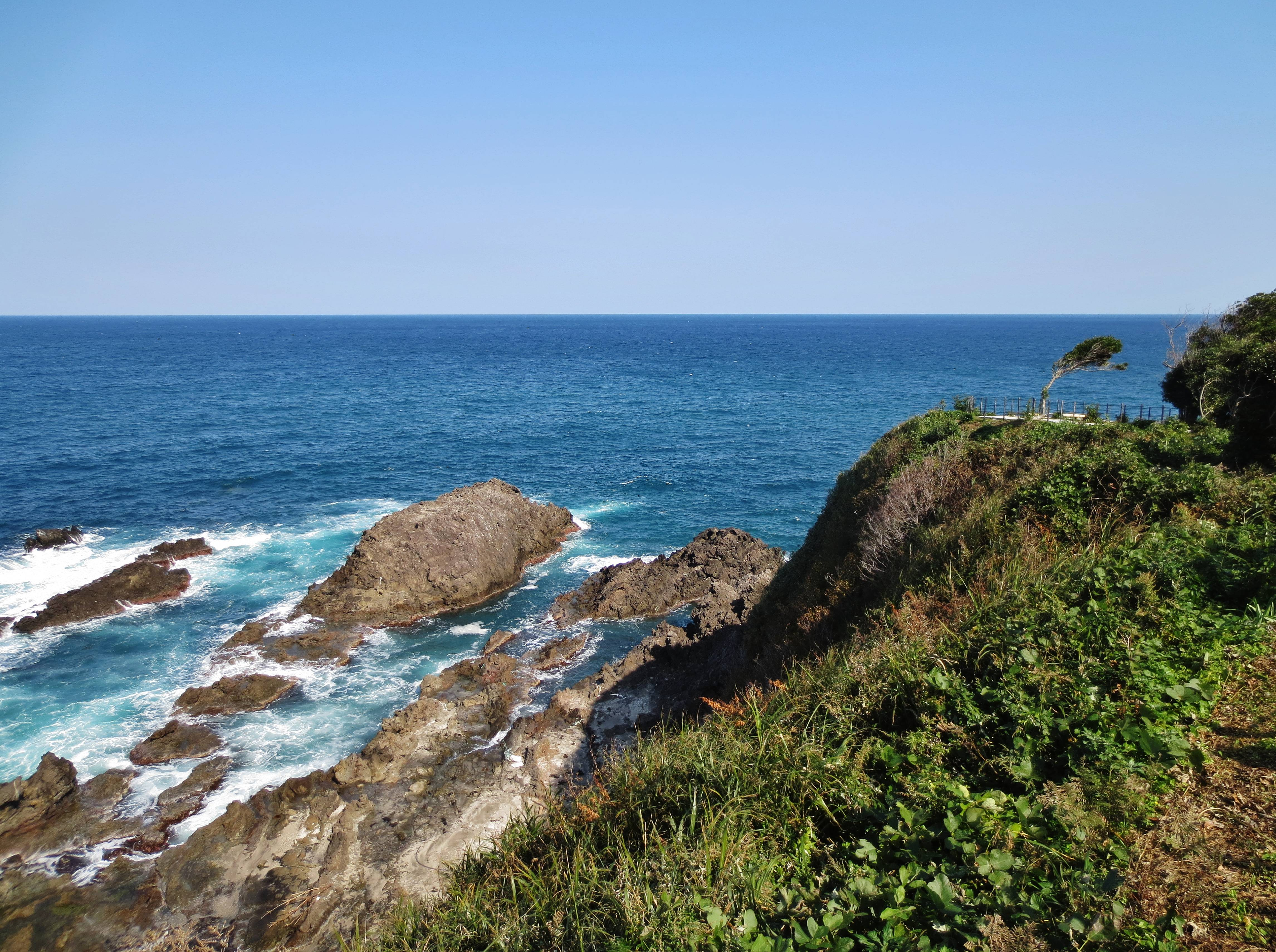 Sanctuary Cape (Kongōsaki).